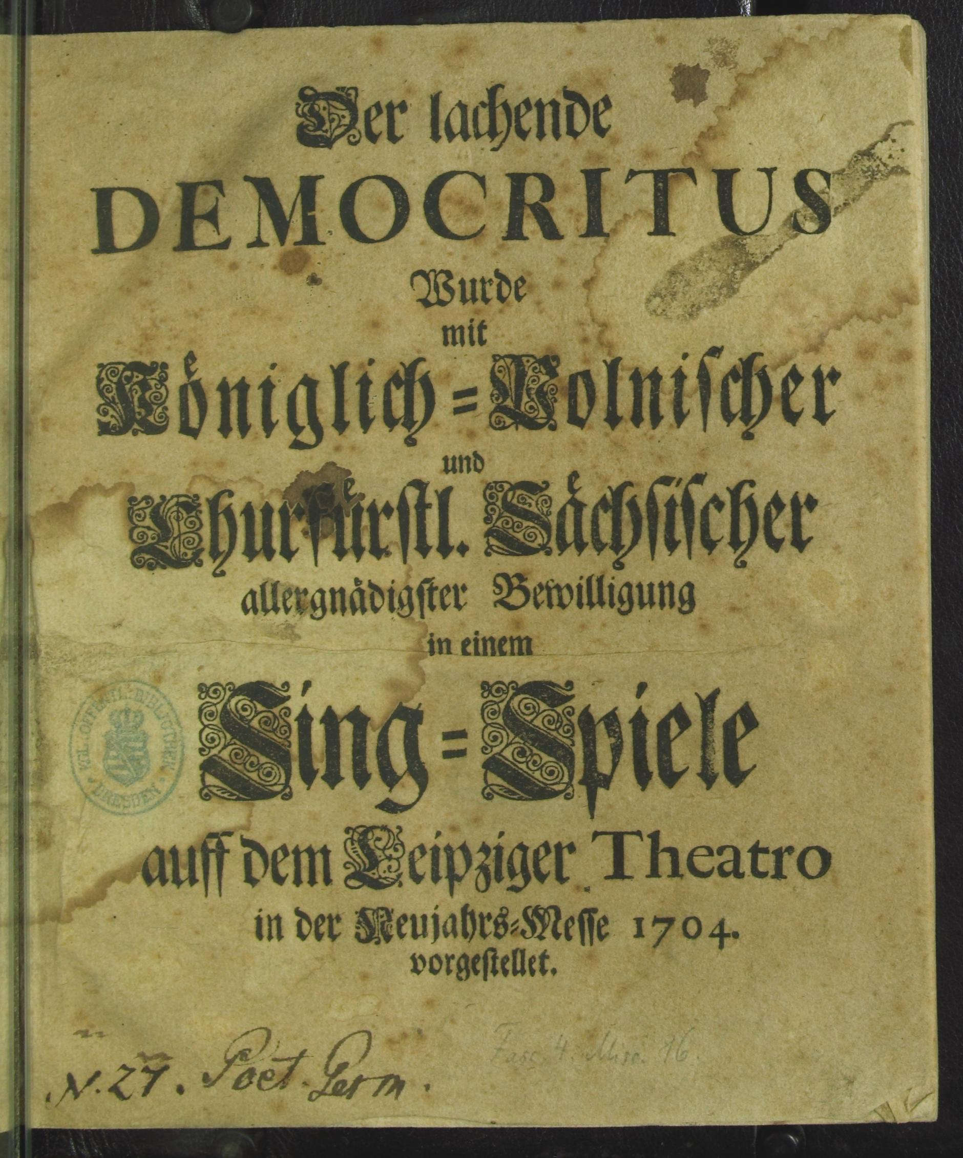 textbook of the opera "Der lachende Democritus"